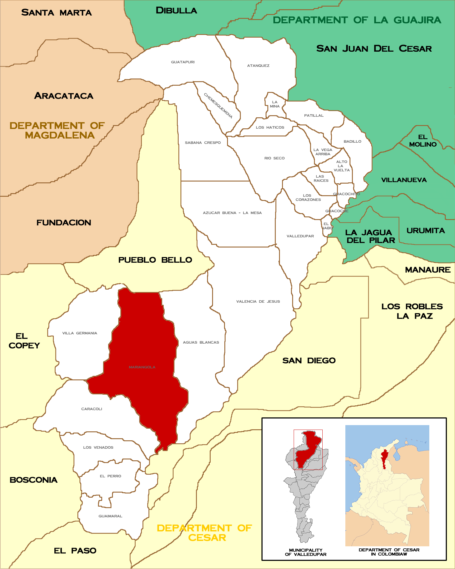 Map of Corregimientos of Valledupar, Mariangola